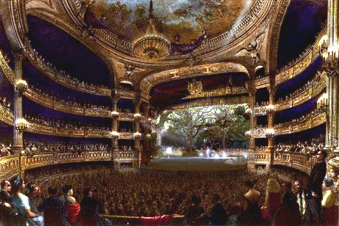 Painting of the Grand salle of the Théâtre de l'Académie Royale de Musique, 1864. scanned by Mrlopez2681